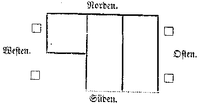 Schematic drawing of the middle quarters of tomb 1